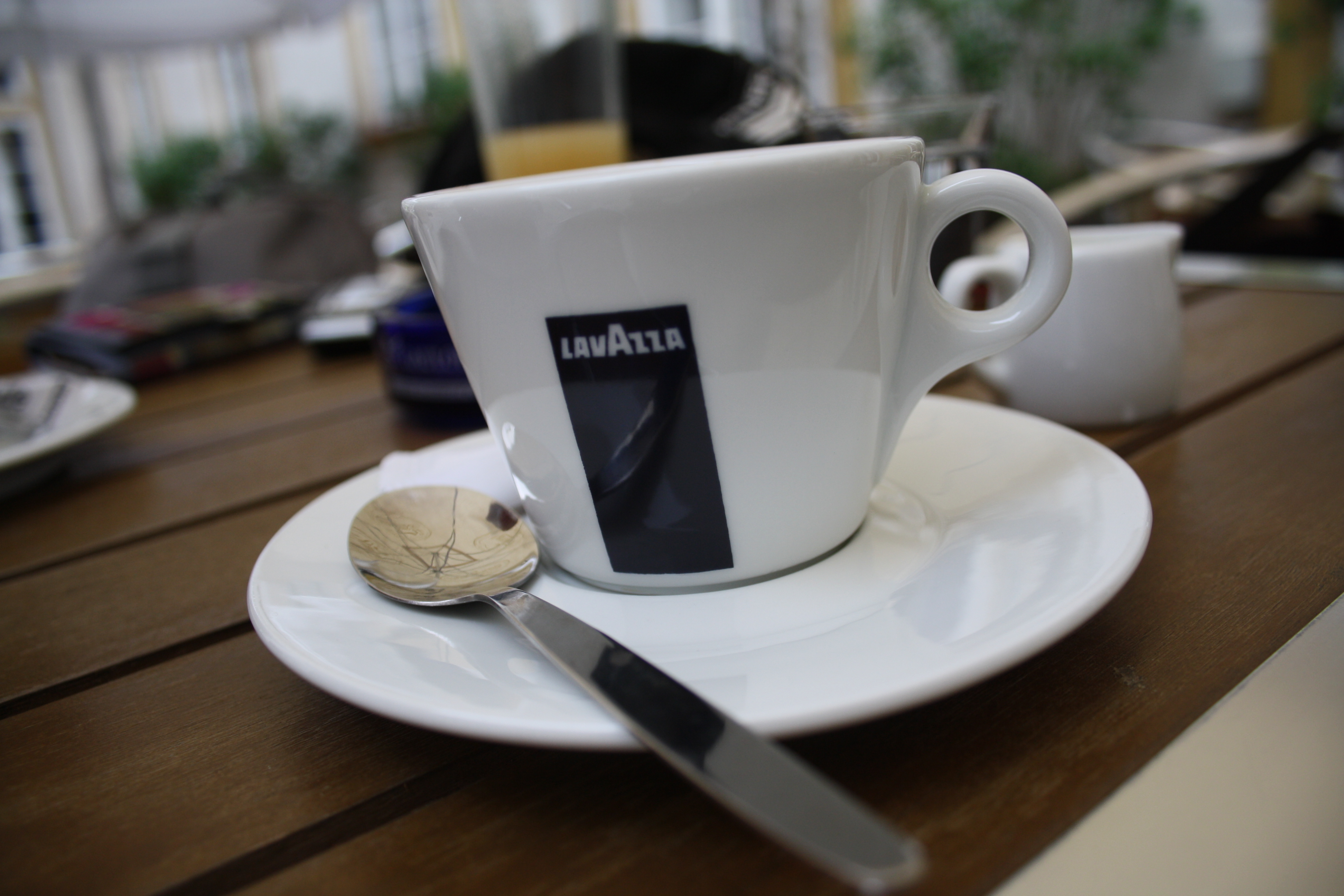 Lavazza cup with little spoon in café Pod Obrazy in Brno.